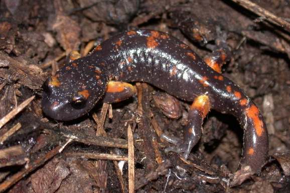 Ensatina eschscholtzii platensis from northern California.